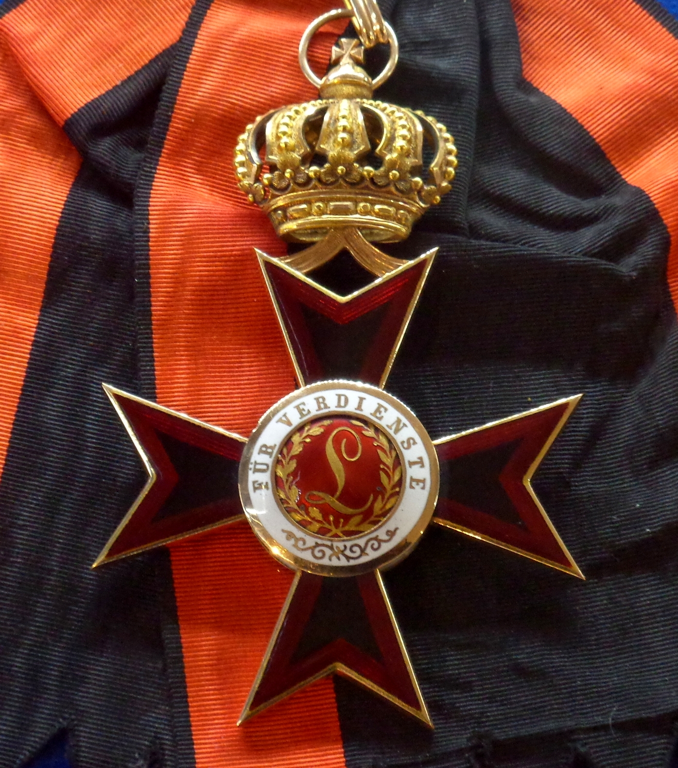 Order of Ludwig, badge of Grand Cross. Grand Duchy of Hesse. The exhibition of the Tallinn Museum of Orders of Knighthood, Estonia.